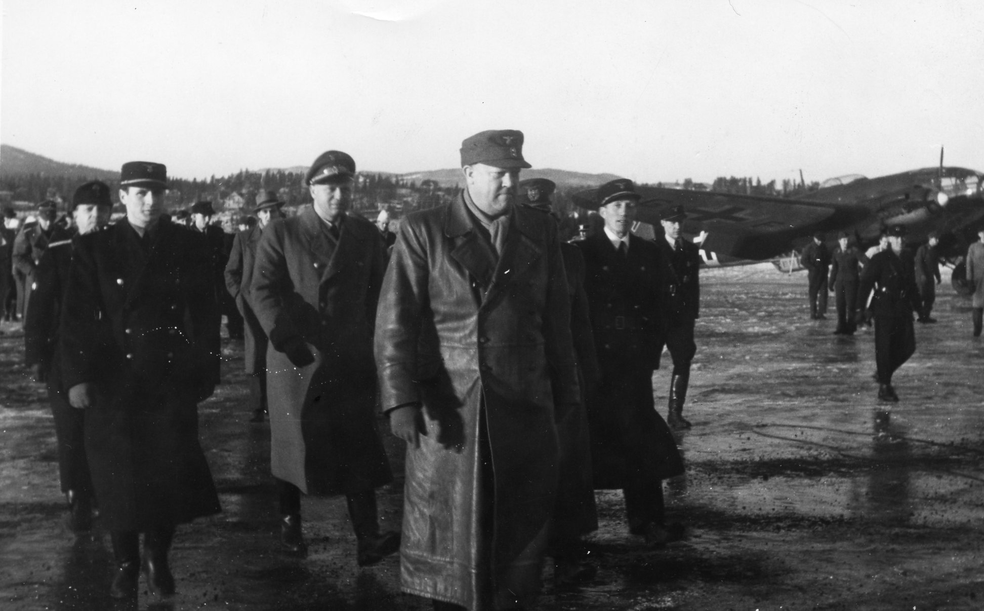 Flickr-album of 55 photos, description by Riksarkivet (National Archives of Norway): Vidkun Quisling, head of the collaborationist government in Norway from 1942 to 1945 during the German occupation in World War II, made ​​several trips to Germany in the period 1939-1945, and he had a total of 11 meetings with Adolf Hitler. Four of the meetings were state visits, and one of them took place in Berlin on 12-15. February 1942. In addition to the newly appointed Minister President, the group consisted of ministers Hagelin, Fuglesang and Stang and also Thorvald Thronsen, chief of staff in the Hird - the party's paramilitary organisation modelled on the Nazi German Sturmabteilungen.